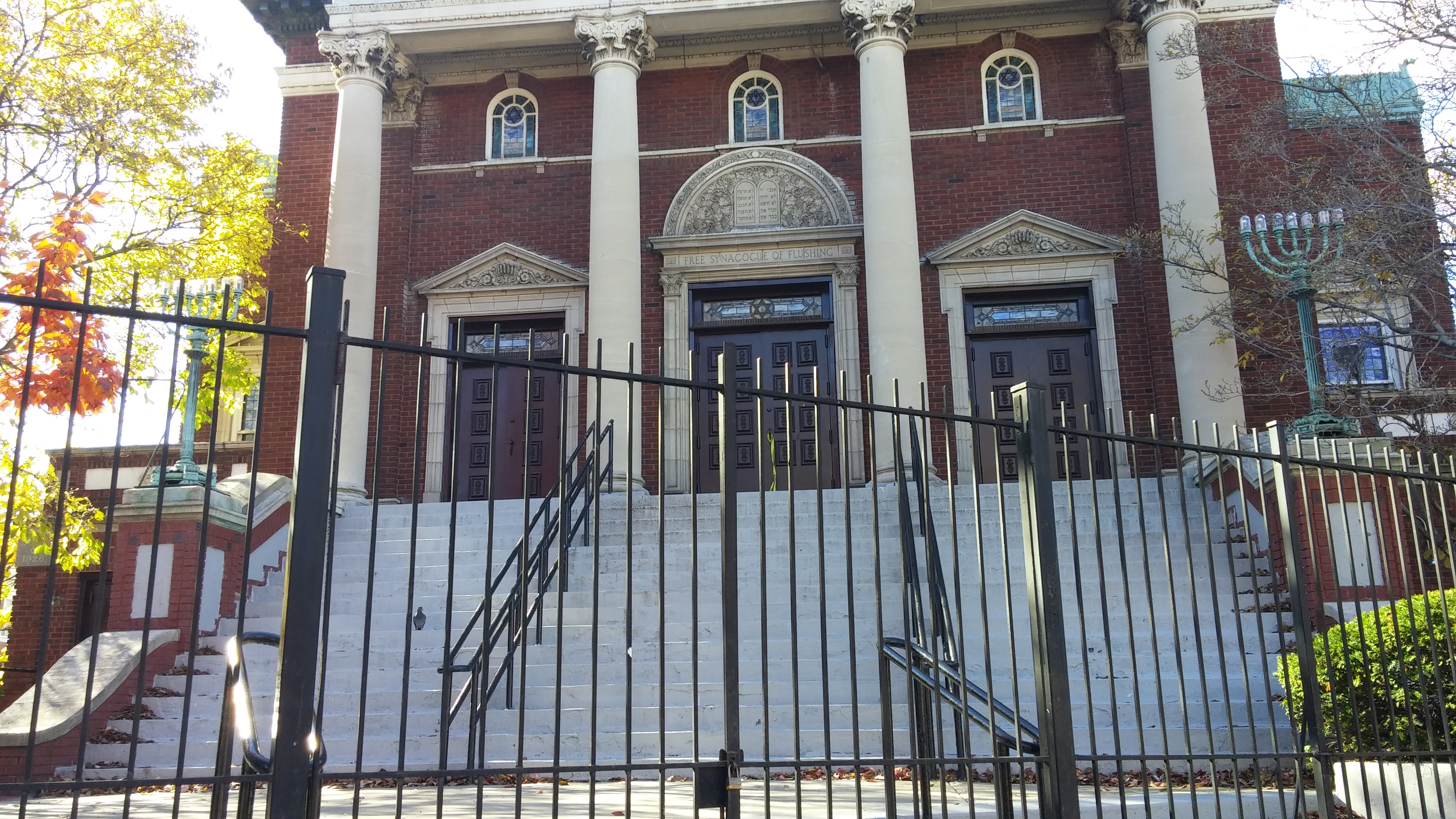 The Synagogue in modern times (November 2016)